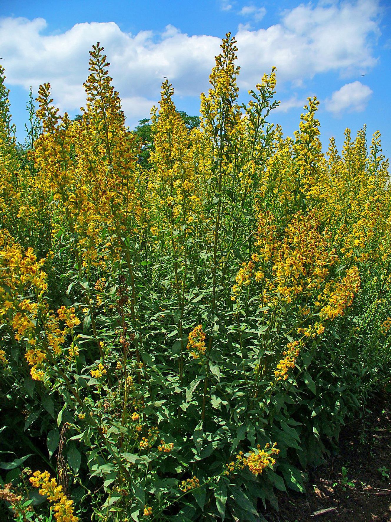 Solidago virgaurea, Asteraceae, Goldenrod, Woundwort, habitus.